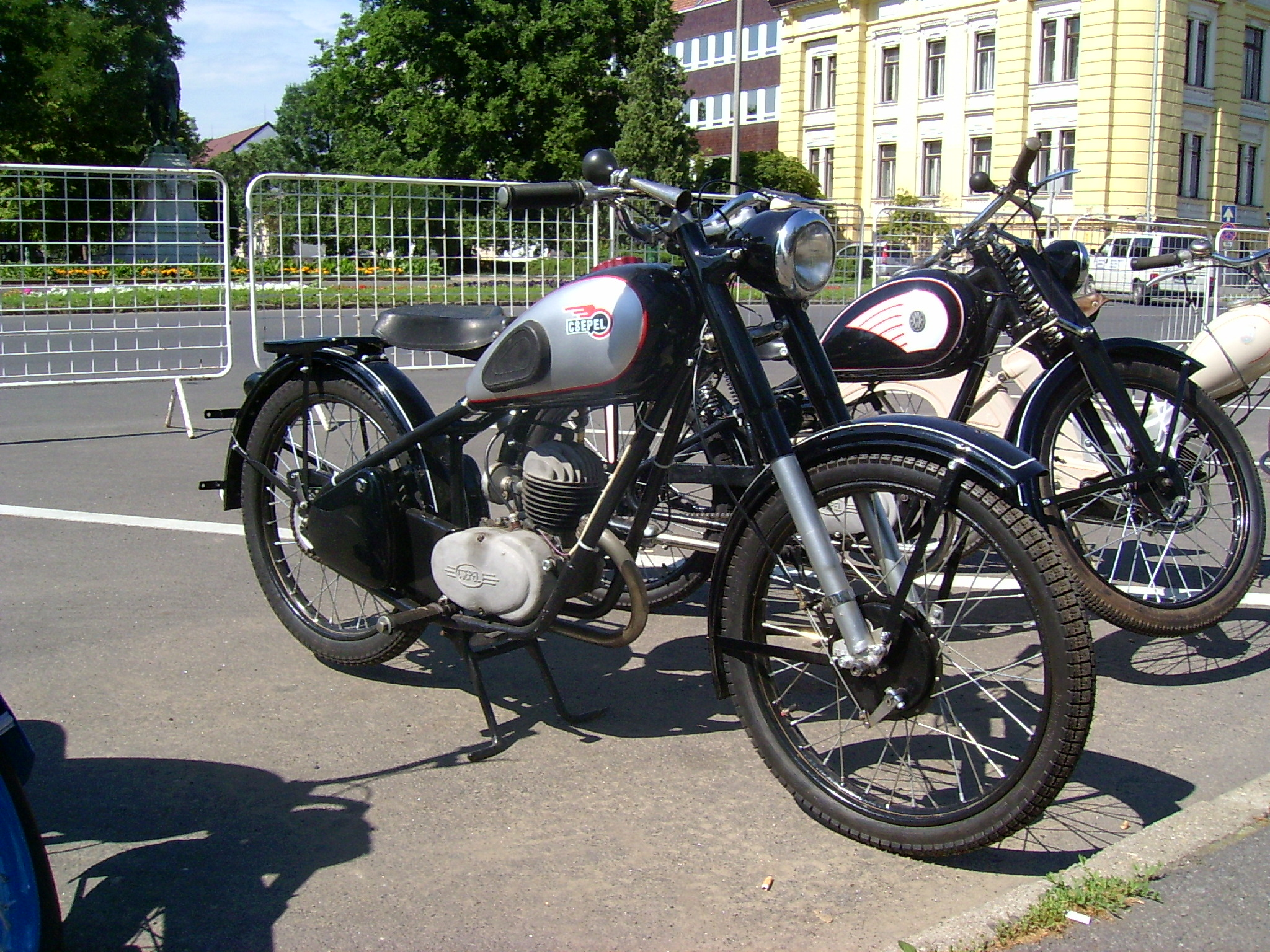 A Hungarian motorbike called Csepel 125/50 from 1950 in Nyíregyháza in an open air exhibition